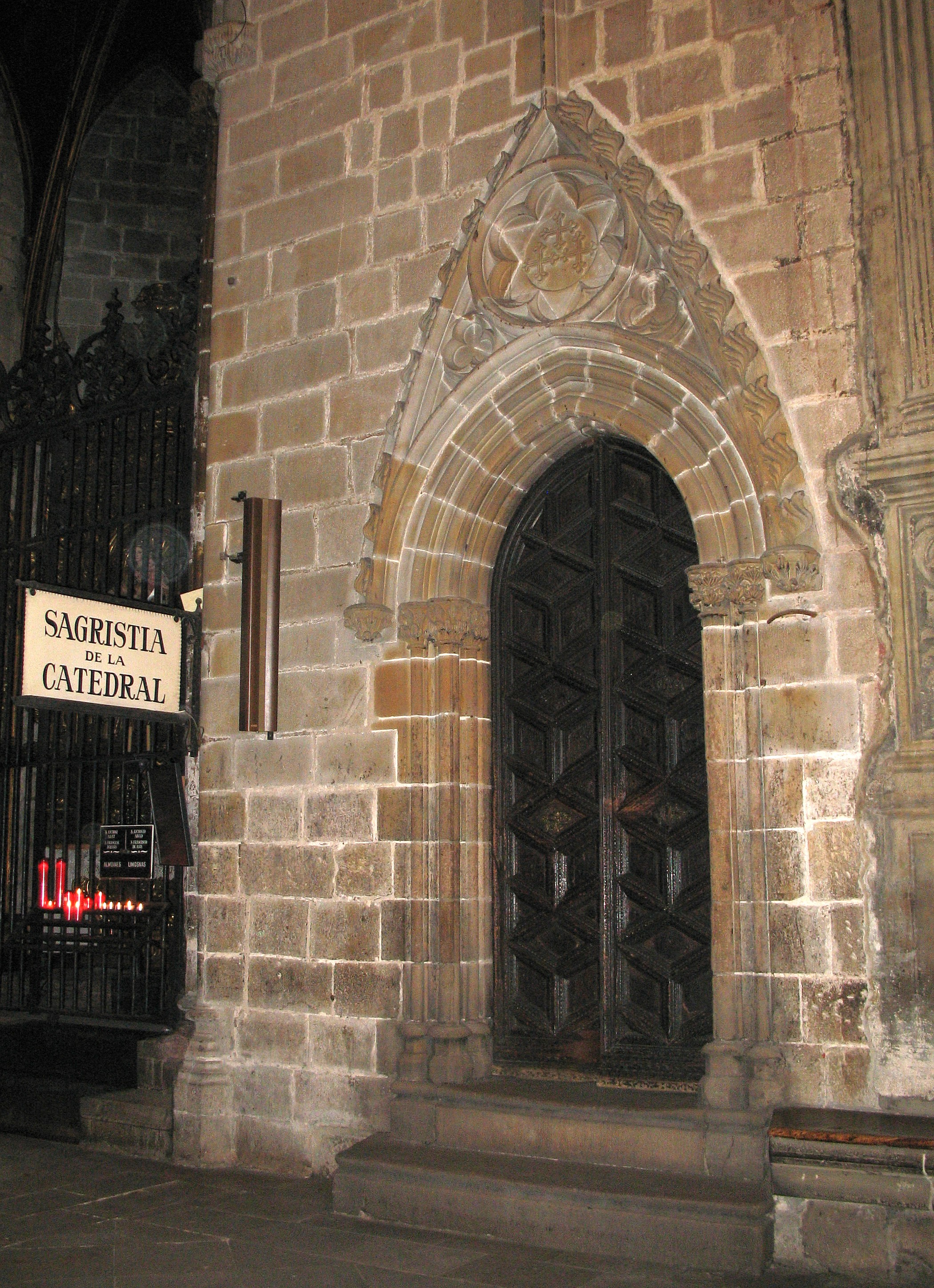 Entry to the Sacristy in the cathedral of Barcelona, Spain